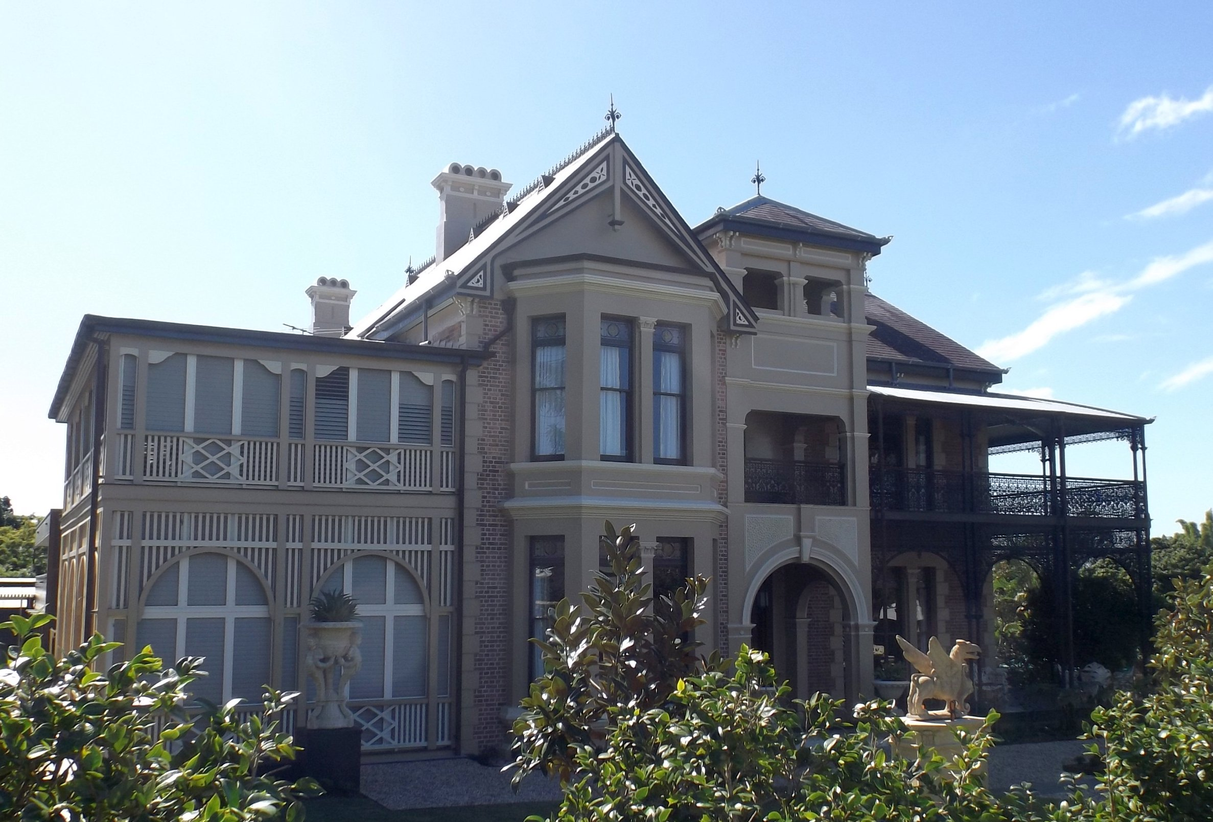 Photo of Glengariff residence at Hendra, Brisbane, Queensland, Australia.